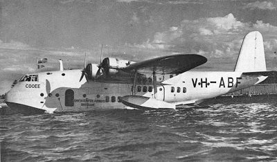 Short S.23 Flying Boat (VH-ABF) Cooee, Qantas Empire Airways, late 1930s.